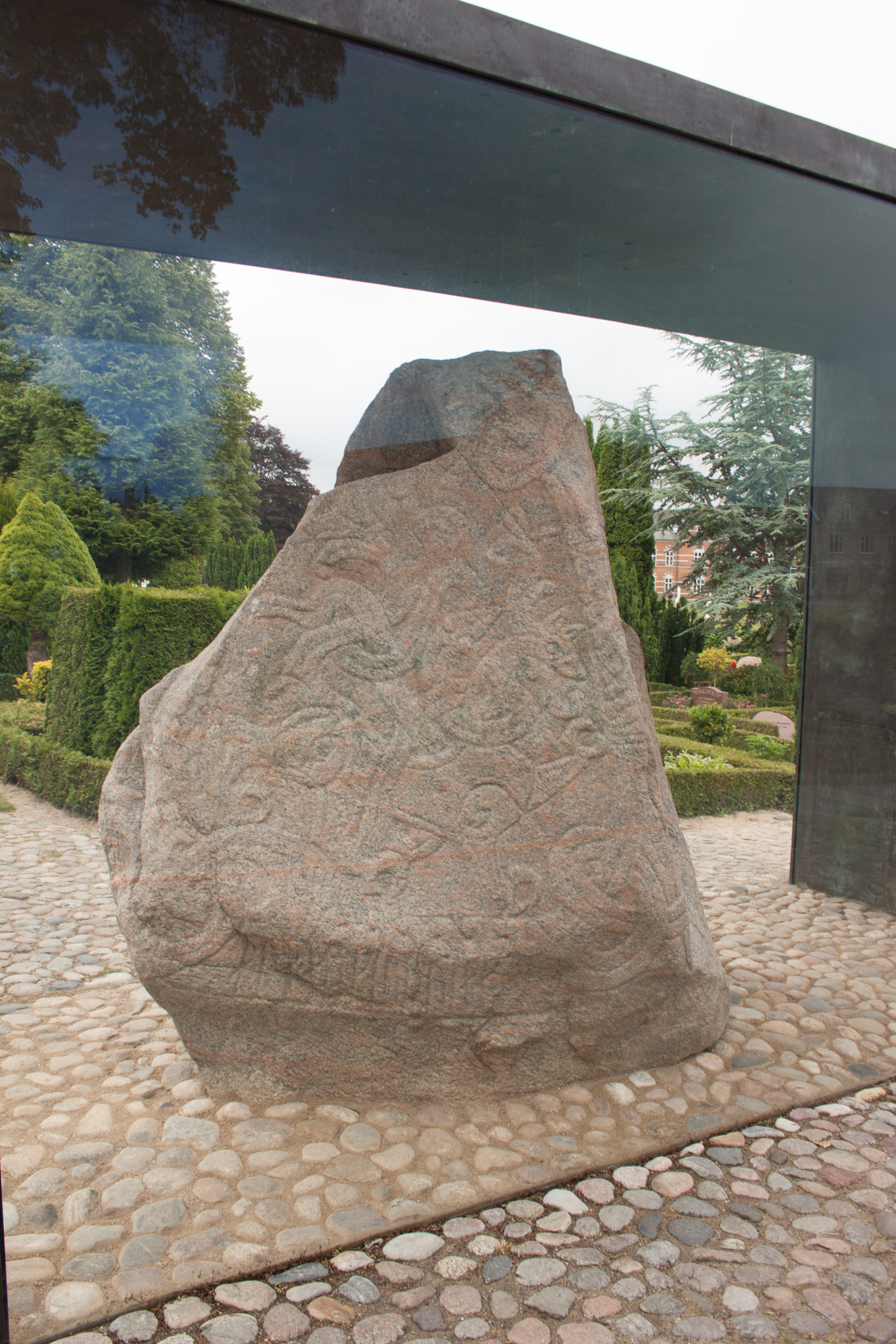 Runic stone raised by Harald Bluetoothlabel QS:Len,"Runic stone raised by Harald Bluetooth" label QS:Lhu,"Kékfogú Harald rúnaköve"